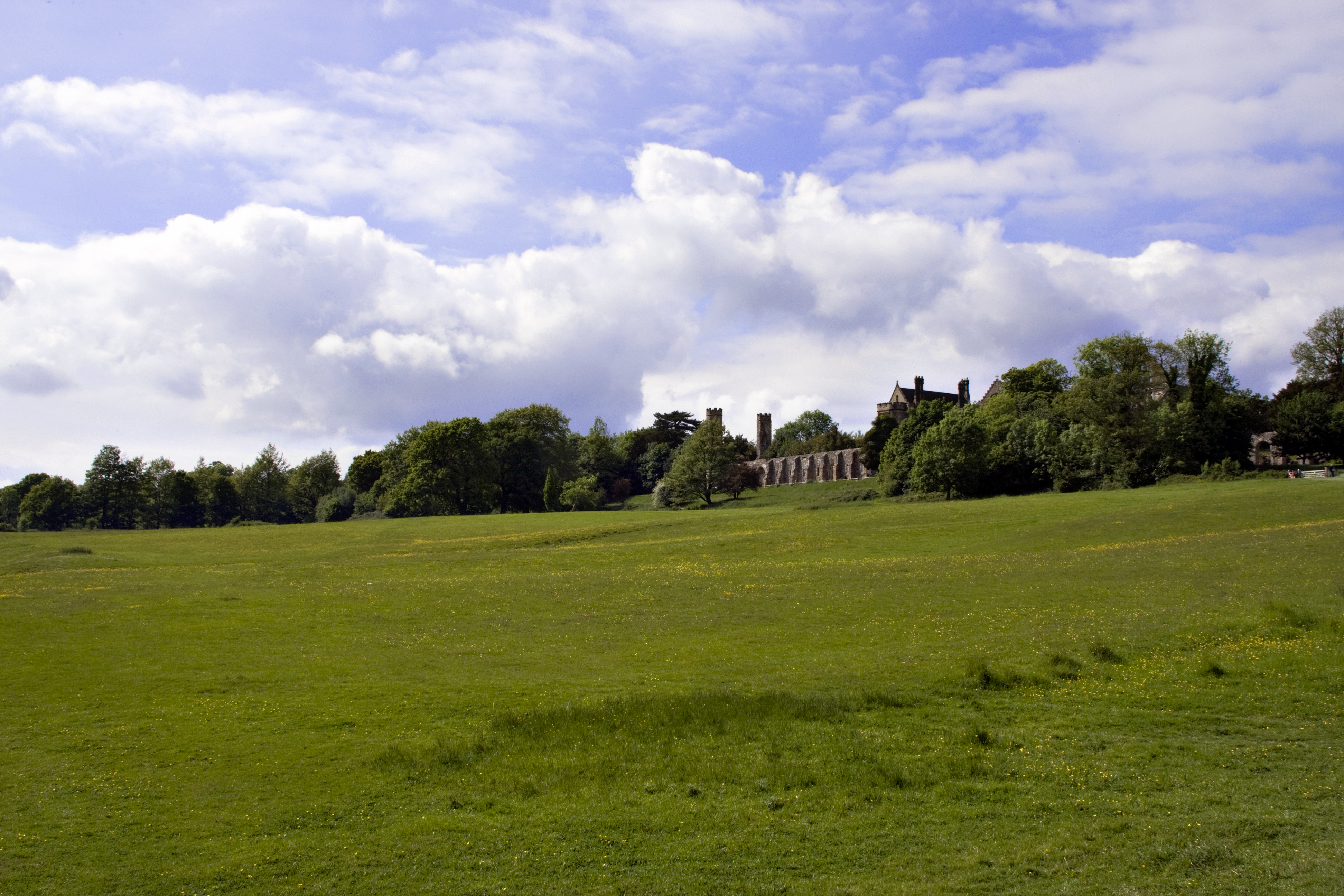 Battle Abbey viewed from across the battlefield of the Battle of Hastings